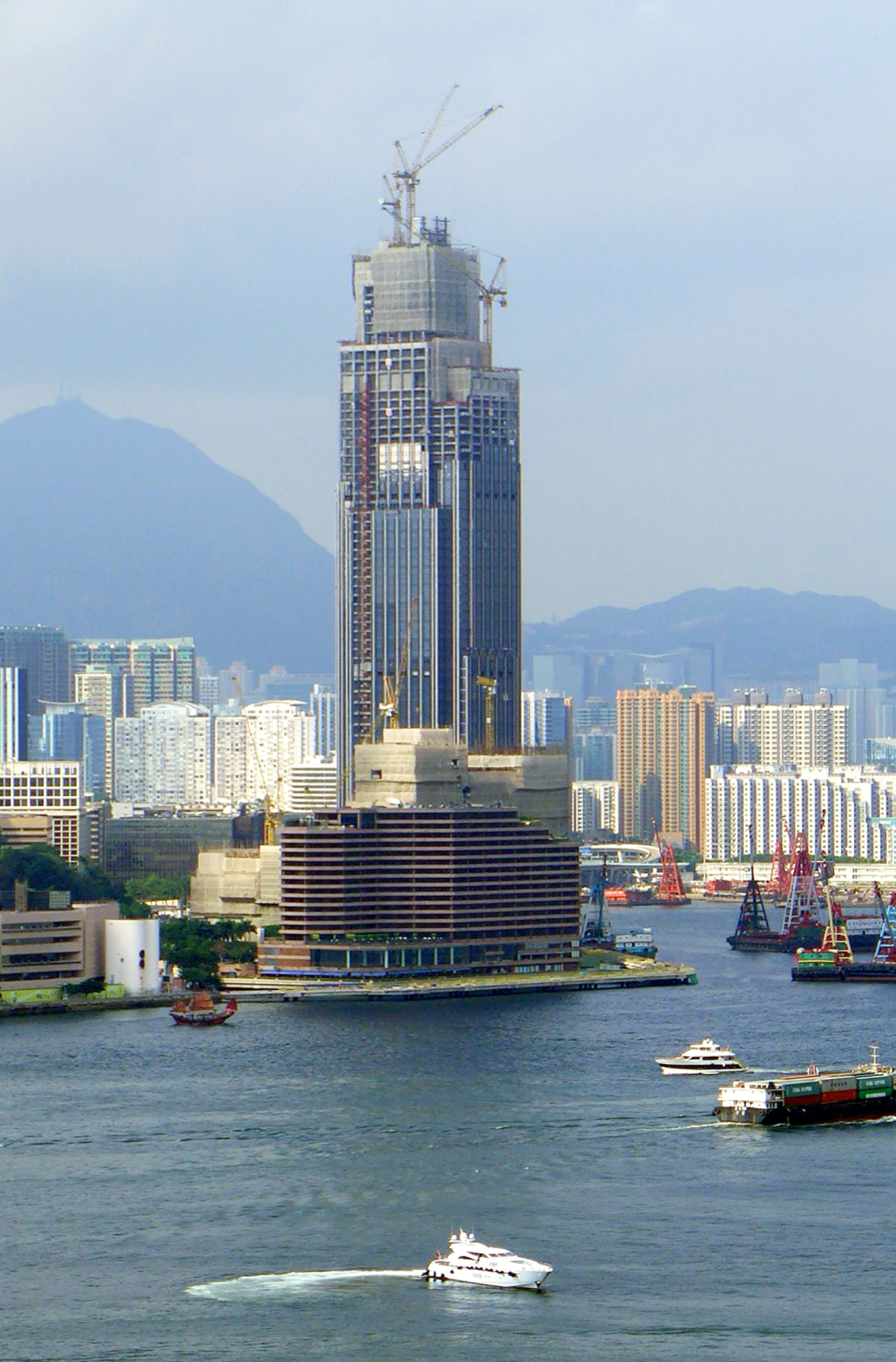 New World Centre Remodeling Site View